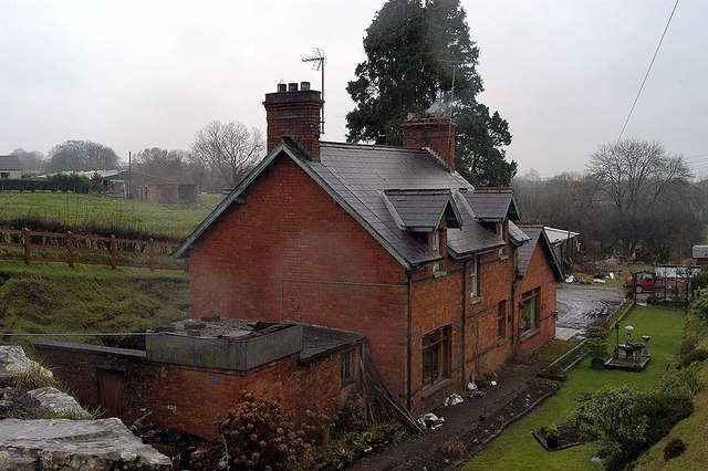 Moorsfield Railway Station Moorsfield railway station.